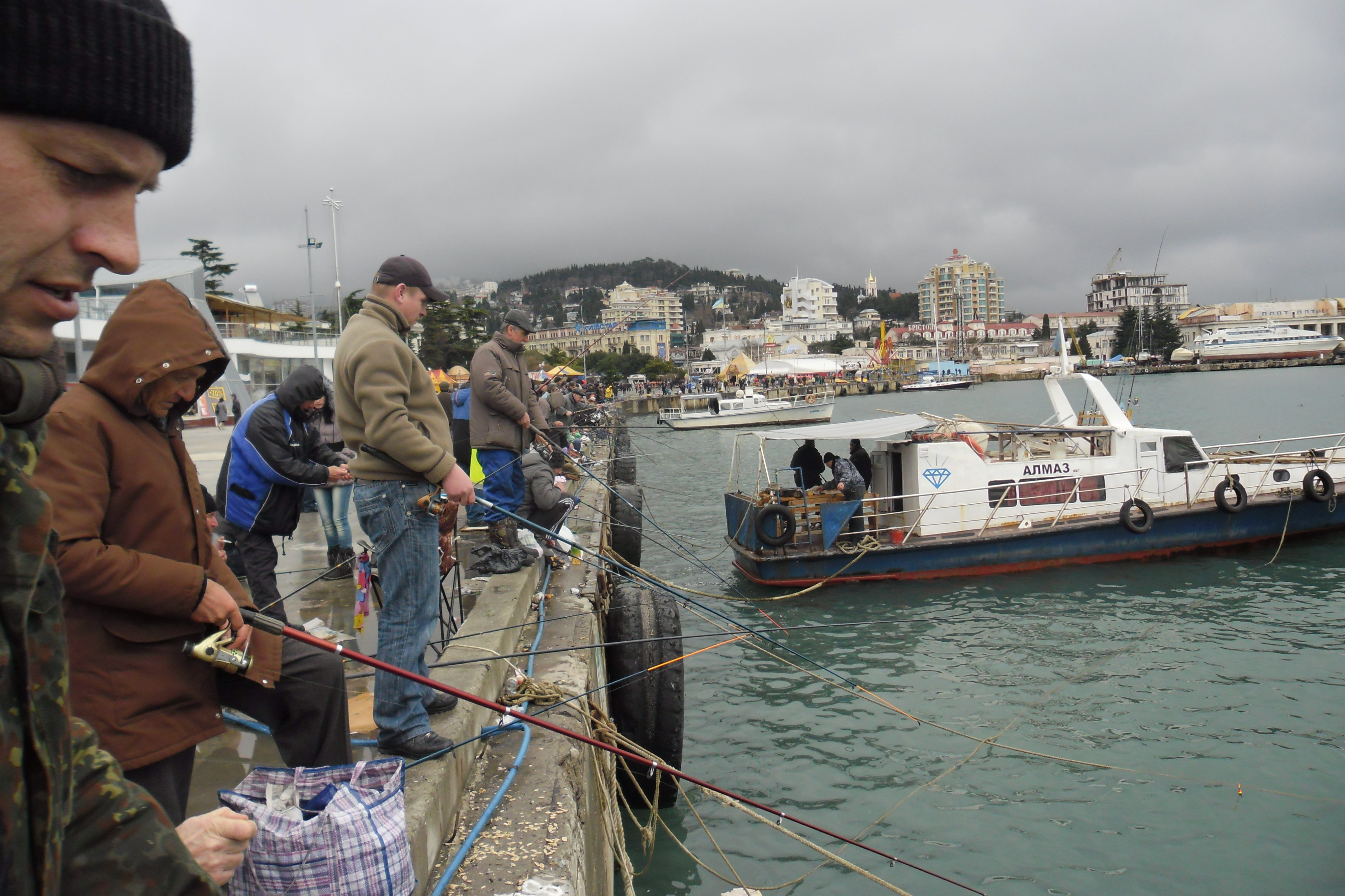 Almaz-Yug at quay in Port of Yalta (30 September 2012 acc. to metadata) (Golubaya Strela ashore in the background)